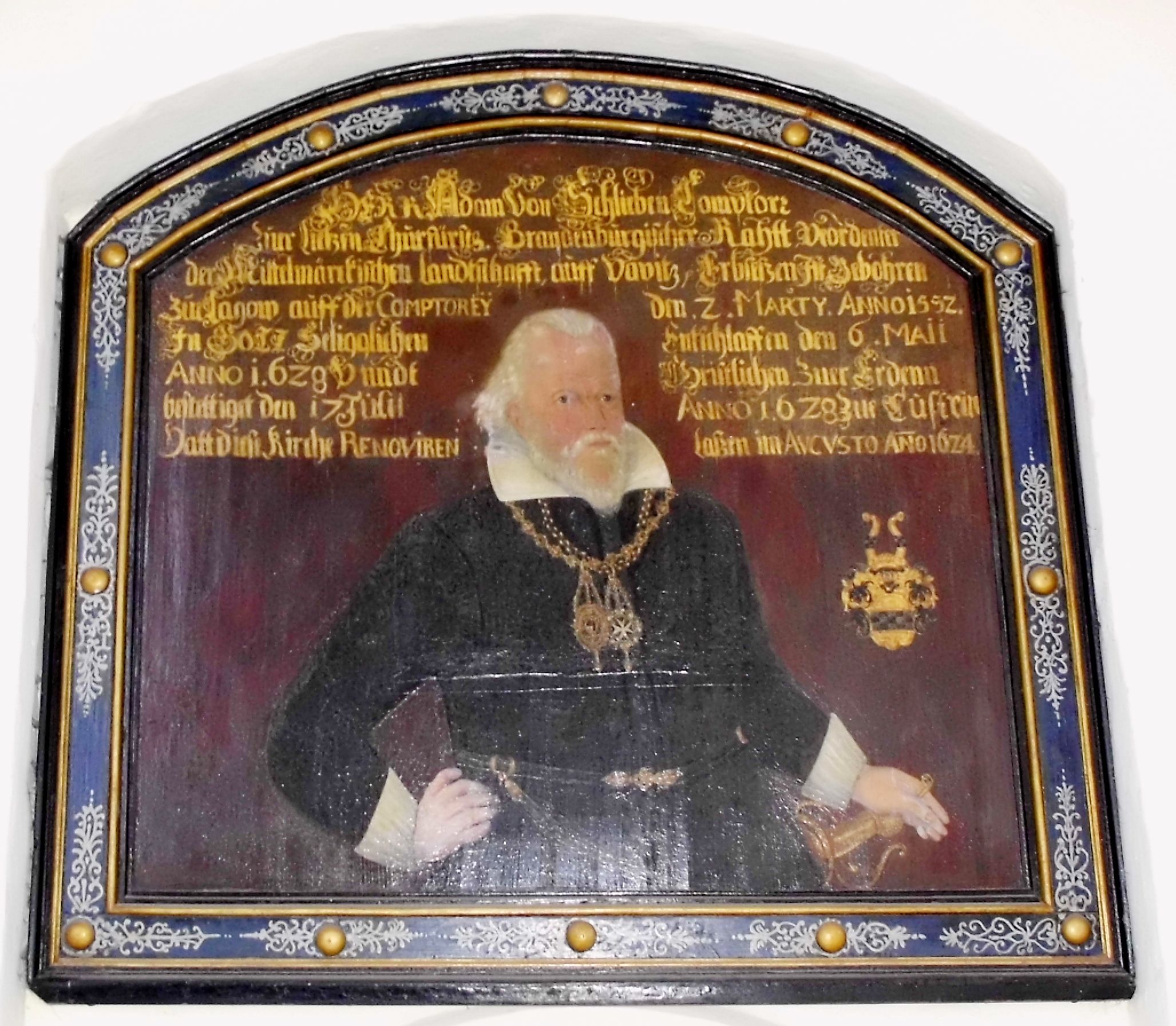 Commandery church Lietzen - Epitaph for Adam von Schlieben